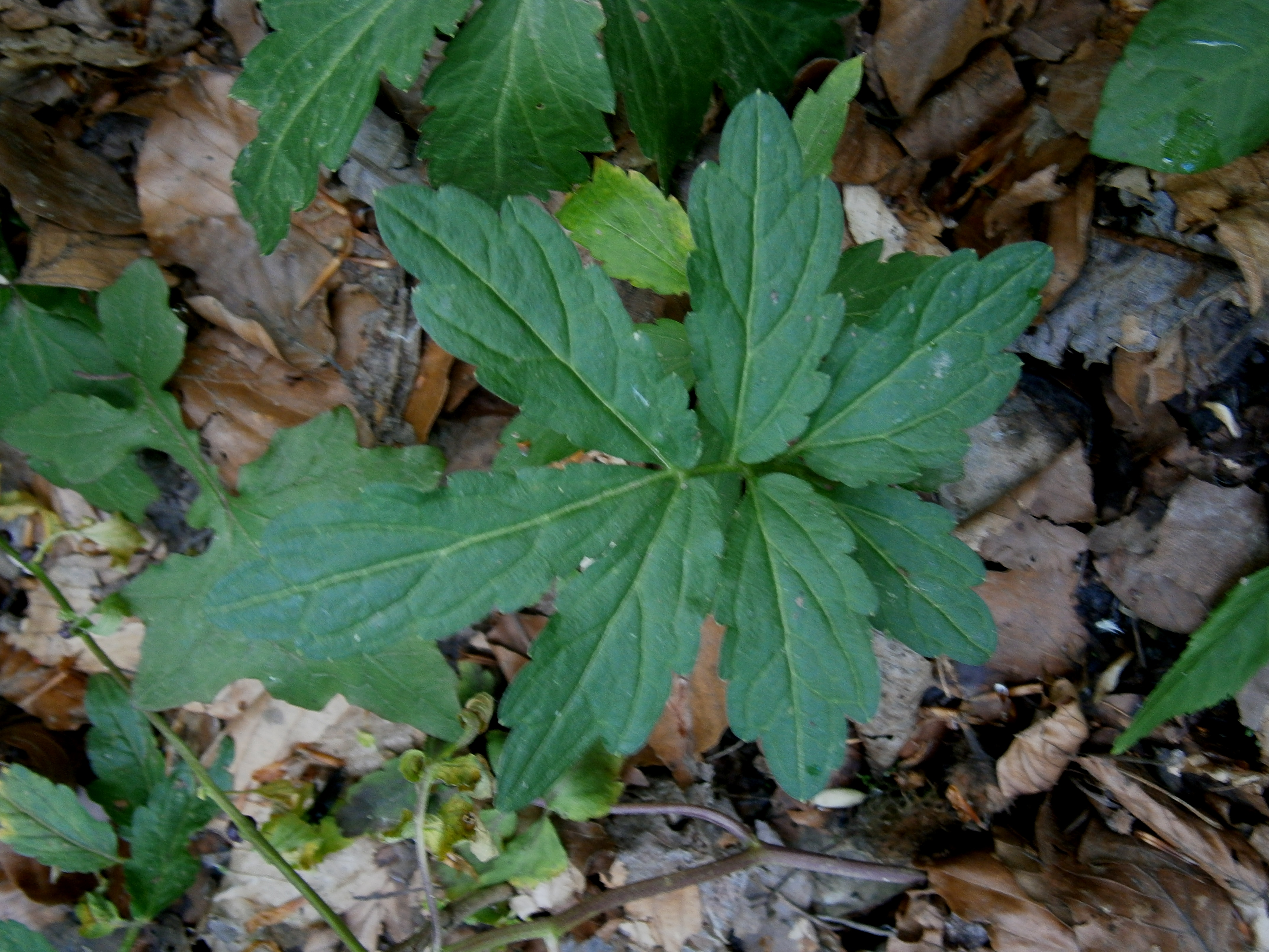 Cardamine bulbifera basal leaf